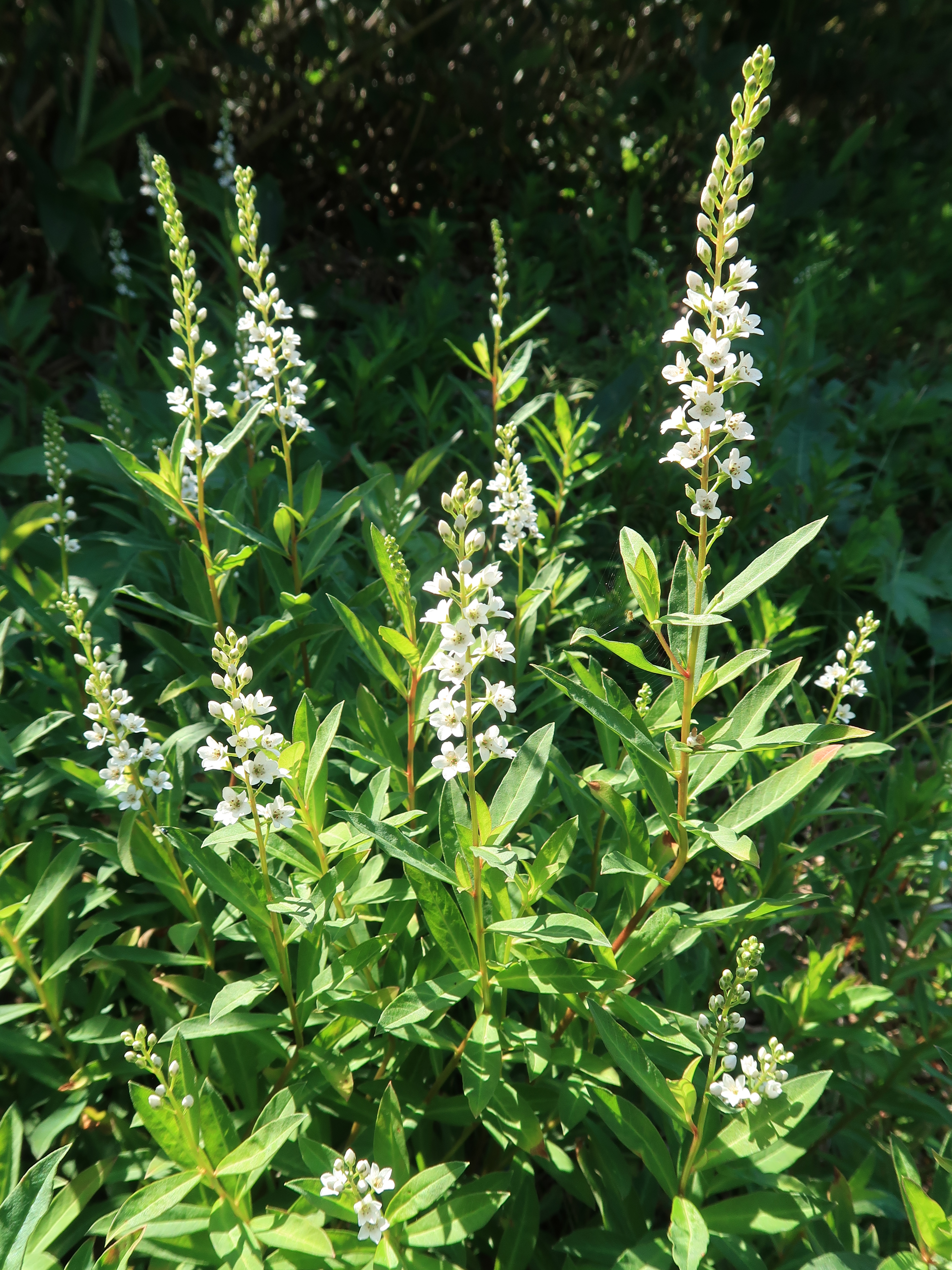 Lysimachia fortunei ,Shonai area, Yamagata pref., Japan